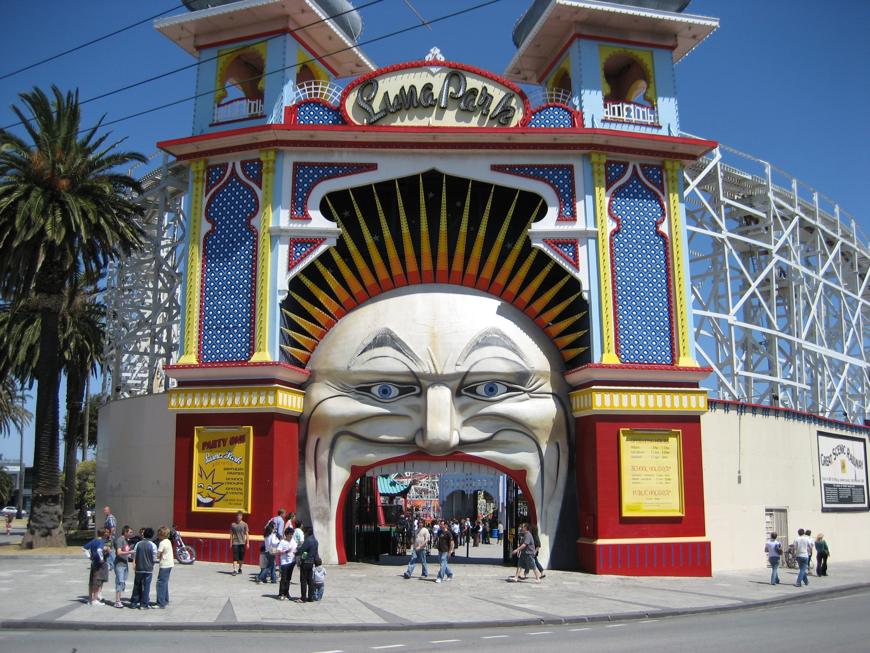 taken by myself